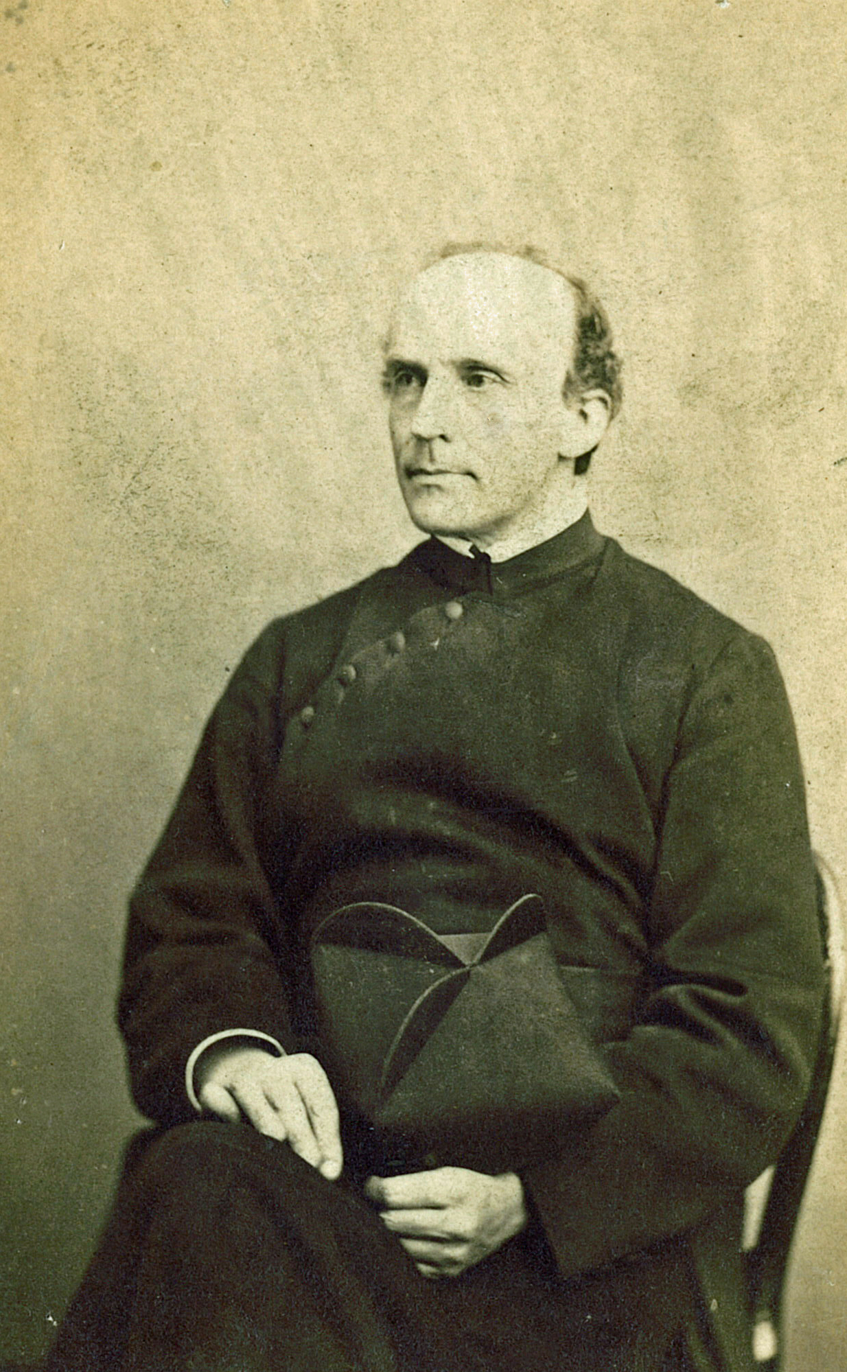 Father Francis Asbury Baker, cofounder of the Paulist Fathers.